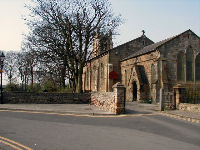 Holy Trinity Church, Seaton Carew Holy Trinity Church began its life as a chapel and was consecrated on 29th September 1831. More can be found here